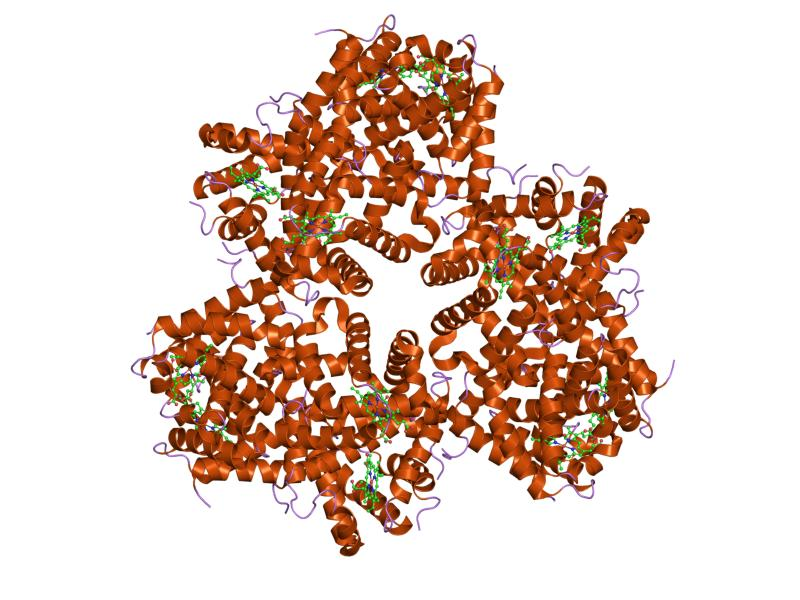 Cartoon representation of the molecular structure of protein registered with 1x9f code.